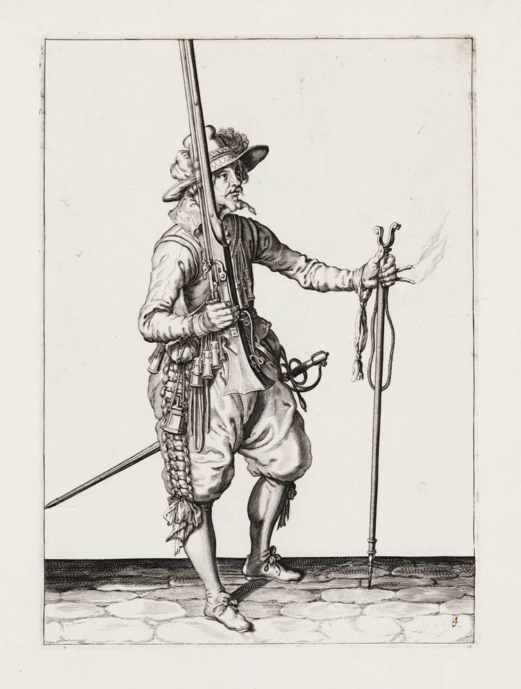 Instructions for the use of the musket. Instruction 4: with the right hand you hold the musket high, and you lower the left hand.